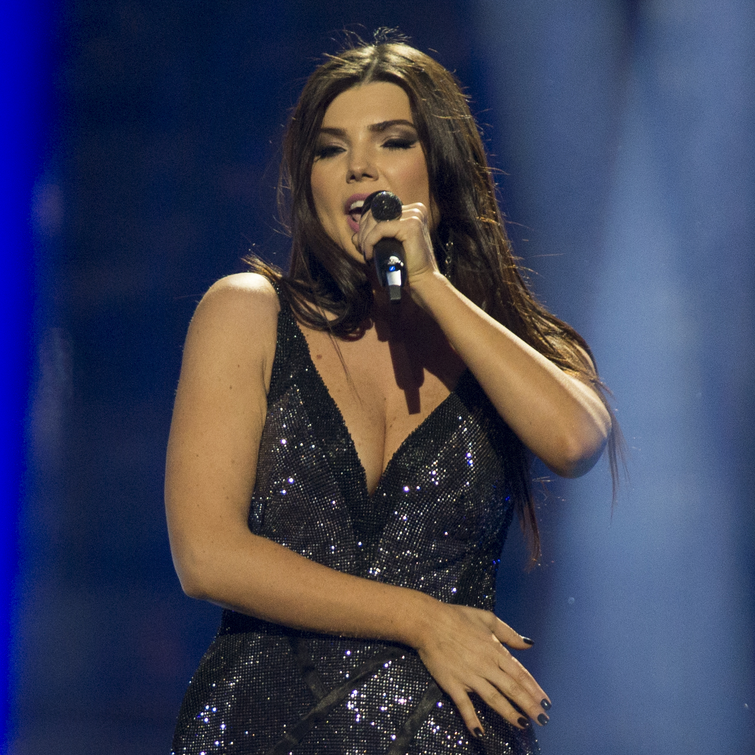 Paula Seling and Ovidiu Cernăuțeanu representing Romania with the song "Miracle" during the first dress rehearsal of the second semi final of the Eurovision Song Contest 2014 Copenhagen. (Help translate this text)